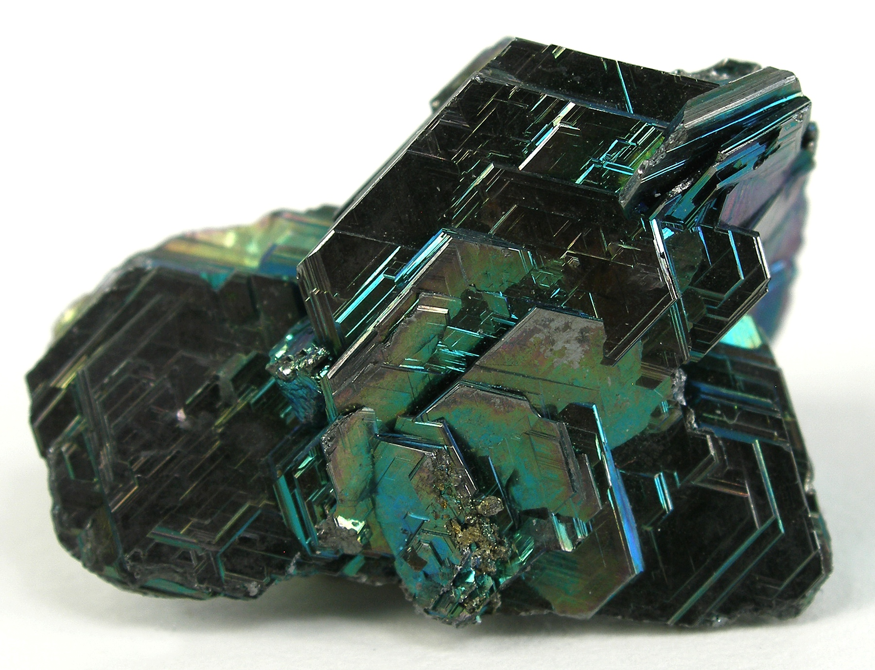 Polybasite Locality: Husky Mine, Elsa, Galena Hill, Mayo Mining District, Yukon Territory, Canada (Locality at ) Size: miniature, 3.0 x 2.2 x 1.3 cm Polybasite These exceptional and uniquely colorful silver species specimens were collected in 1977 by Joe Weinholtzner at a remote location. Rumour (and truth as it turns out !) has it that nearly all were stored in a coffee can at the time and kept that way for decades. Not the best packing job for a collector.... Though many were sold at the time, a number of the largest and finest pieces were kept back and many of these came to market through Mark Mauthner, in 2004-2005. The polybasite crystals, of which this is one of the larger and more robust examples that I have seen for sale from the locality, have been previously very scarce on the market in any size above thumbnail. Most are thin plates, whereas this is a robust, 3-dimensional cluster. The specimens feature a very attractive purple/blue/red/green iridescence, which sets them off from other worldwide localities for these species (both the polybasite and stephanite from here have the coloration). The mine is defunct and despite searching, no more have been found here in 30 years now. This phenomenal specimen is one of the very best Husky miniatures I have seen for sale. It is from the collection of Dr. Mark Mauthner. The display face has no damage, save a (small) ding at the top of the left cluster, and it is otherwise in good shape. It is contacted on the bottom edge and a bit on the backside, but again is nearly pristine where it matters most. The color is spectacular: a metallic mix of iridescent purple, red and blue hues (much more obvious in person than the pictures indicate). Individual crystals reach 1.7 cm.